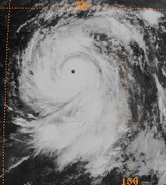 National Climatic Data Center GIBBS satellite archive